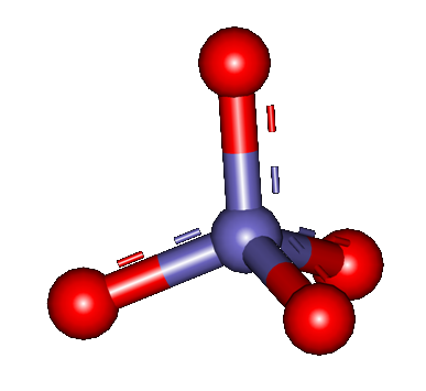 3D model of the Ferrate ion.